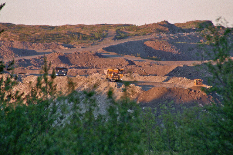 Off highway trucks in the mine Bjørnevatn near Kirkenes in Finnmark in Norwegen.